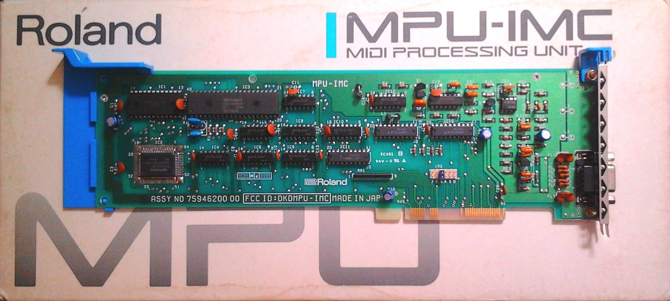 This is the [rare] Roland MPU-IMC; the Micro Channel variant of the MPU-401.